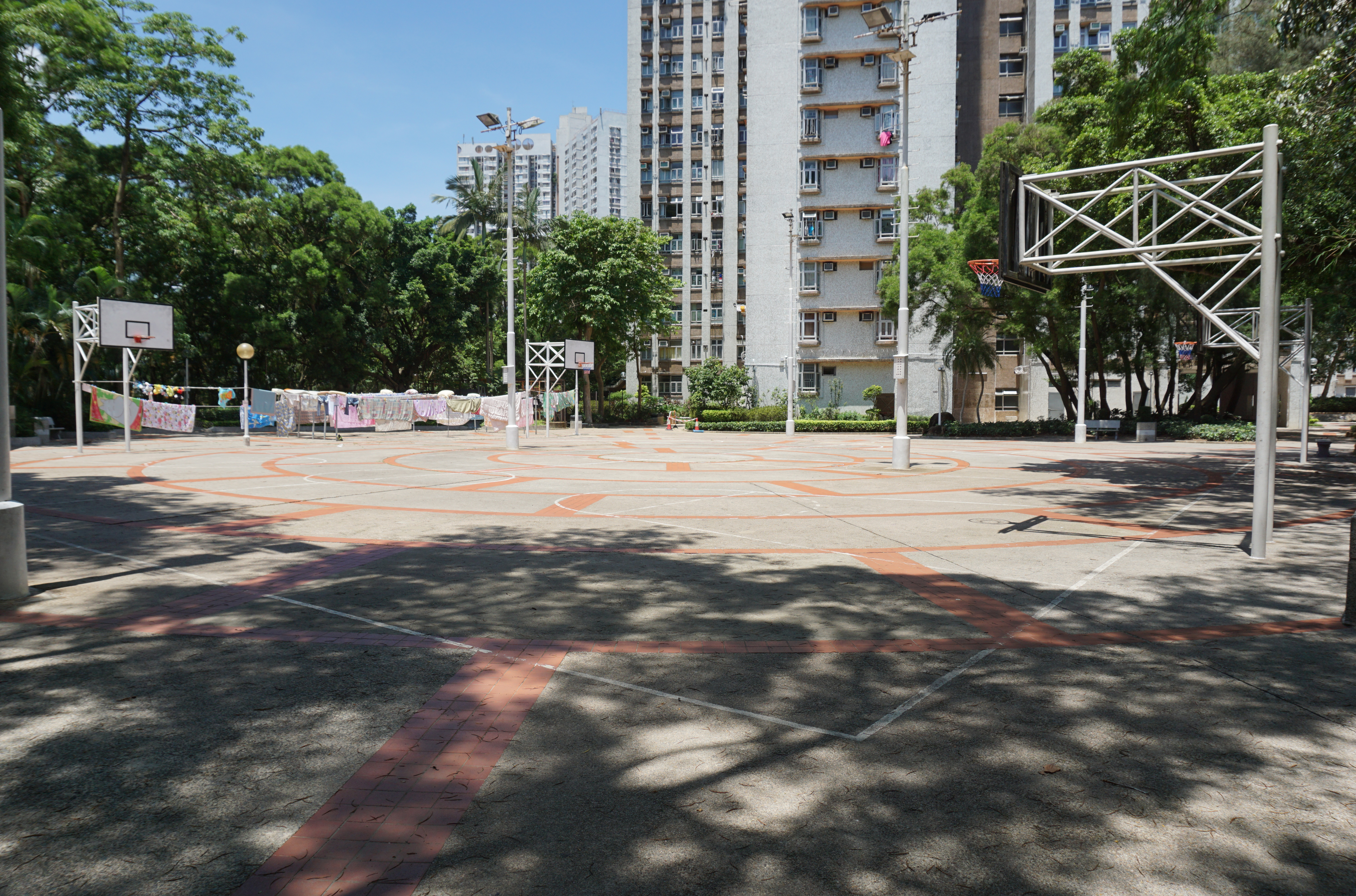 Ching Wah Court in Tsing Yi, Hong Kong.